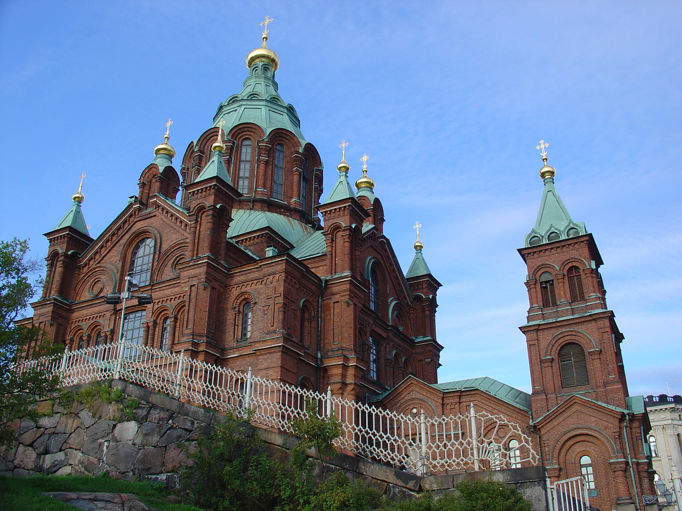 Orthodox cathedral (Uspenski Cathedral) in Helsinki, Finland.